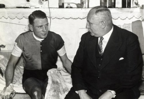 Belgian racing cyclist Gerard Loncke negotiating a new contract during the six days of Amsterdam, 1933.